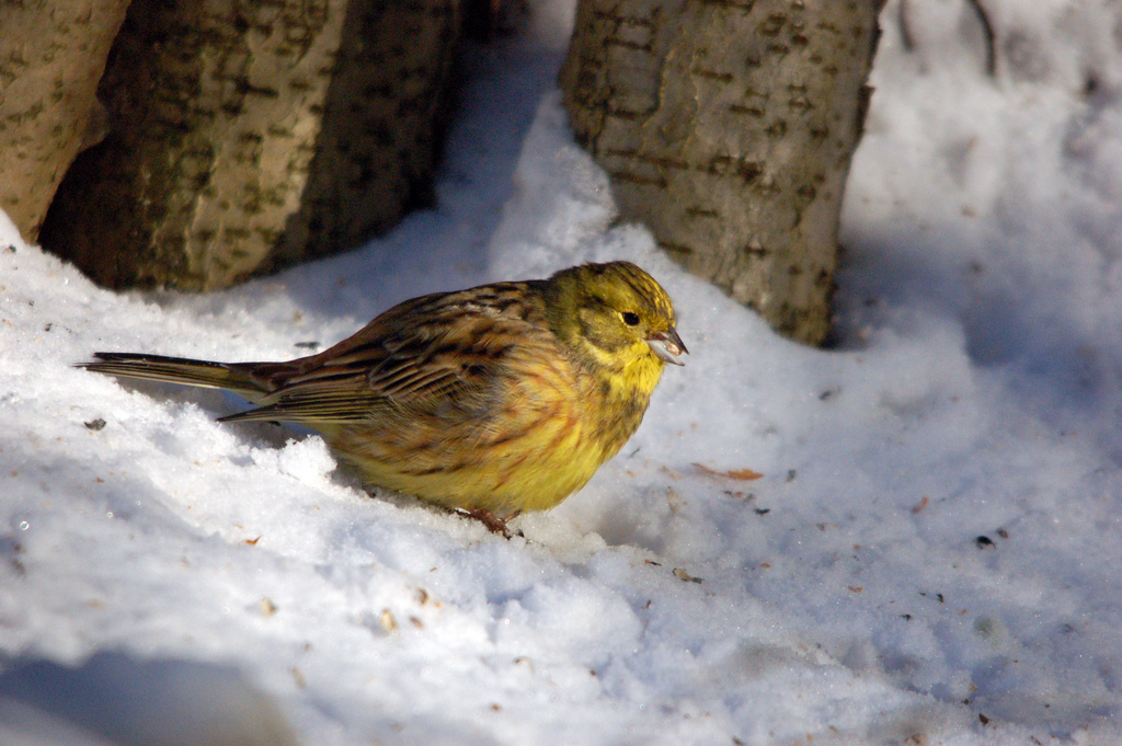 Yellowhammer Emberiza citrinella in winter, Muurla, Finland.